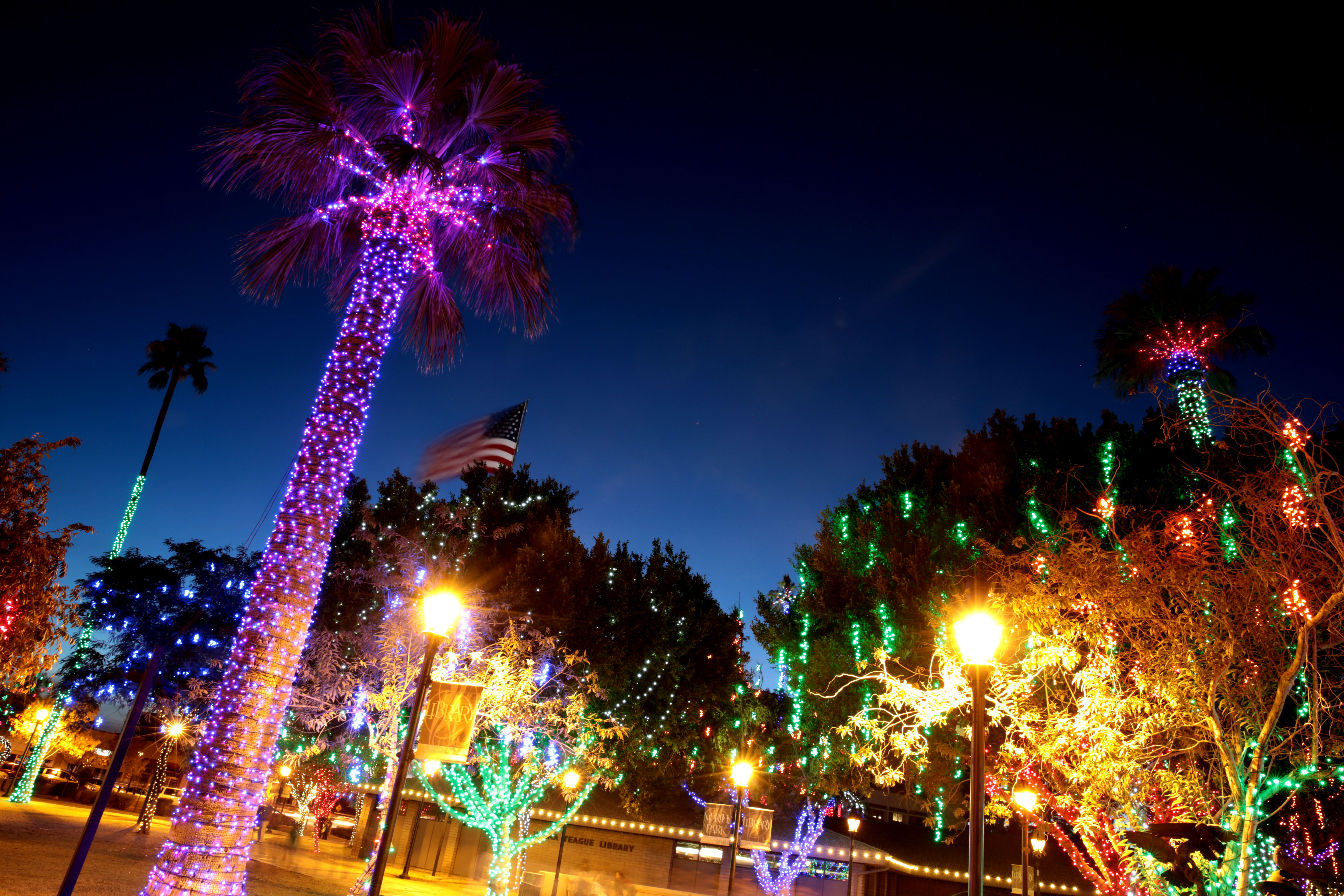 Glendale Glitters in Historic Downtown Glendale in Glendale, Arizona.